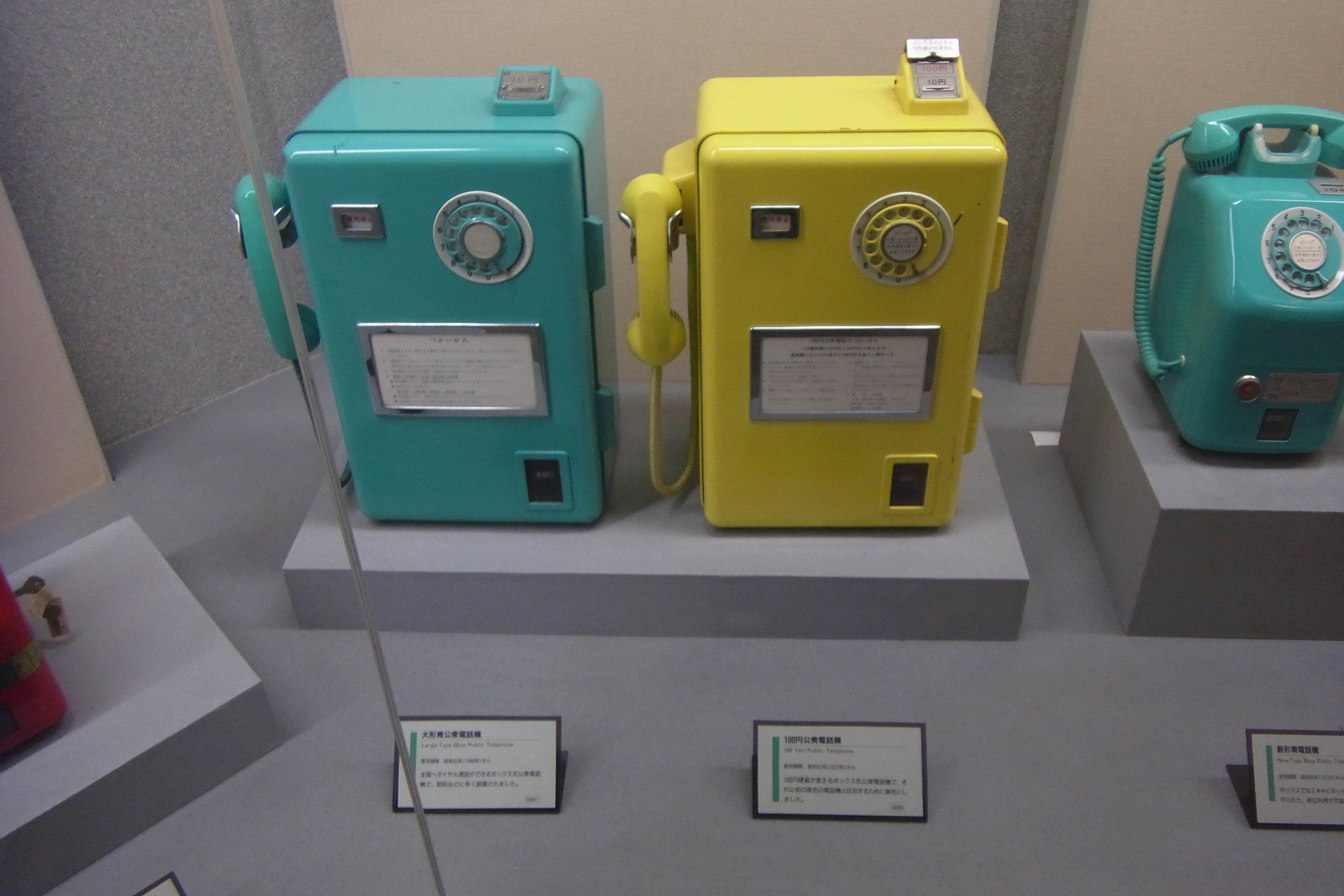 They are payphone witch displayed at Communications Museum, Tokyo